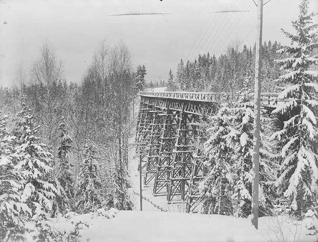 Picture of the old and demolished wooden railway brigde at Hvalstaddalen in Asker, Norway